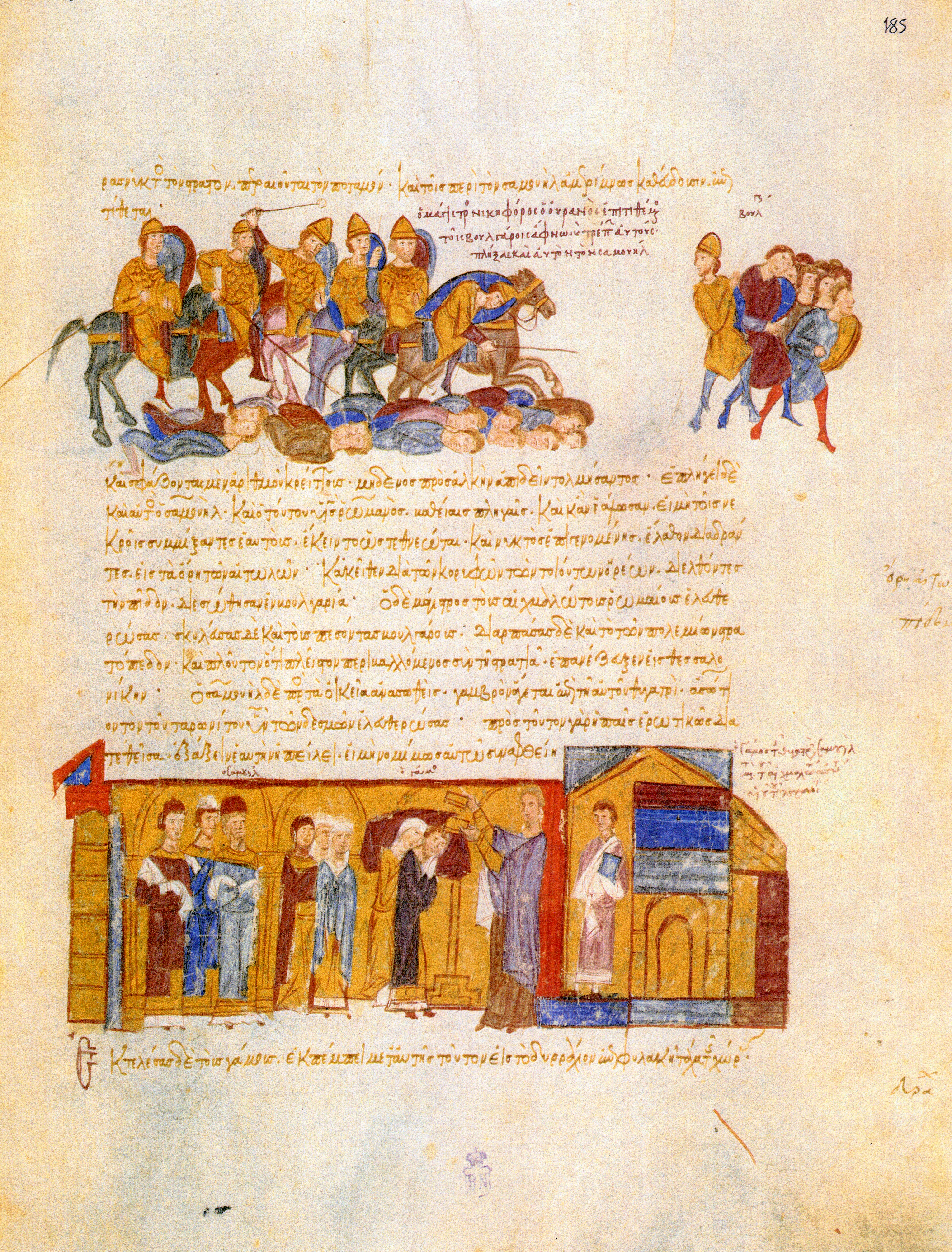 Skyllitzes Matritensis, fol. 185r.